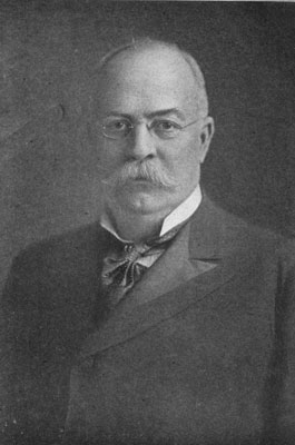 Robert Pitcairn - Project Gutenberg eText 17976 Robert Pitcairn